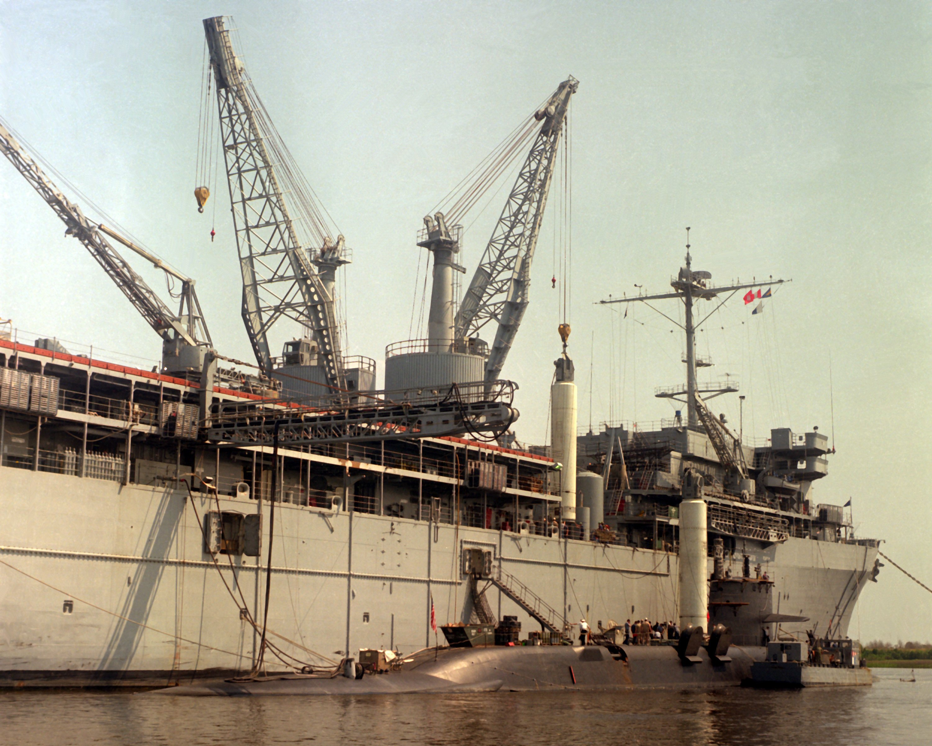 The U.S. Navy nuclear-powered strategic missile submarine USS Francis Scott Key (SSBN-657) taking on Trident C-4 missiles from the fleet ballistic missile submarine tender USS Simon Lake (AS-33) at Kings Bay, Georgia (USA), on 2 October 1981.